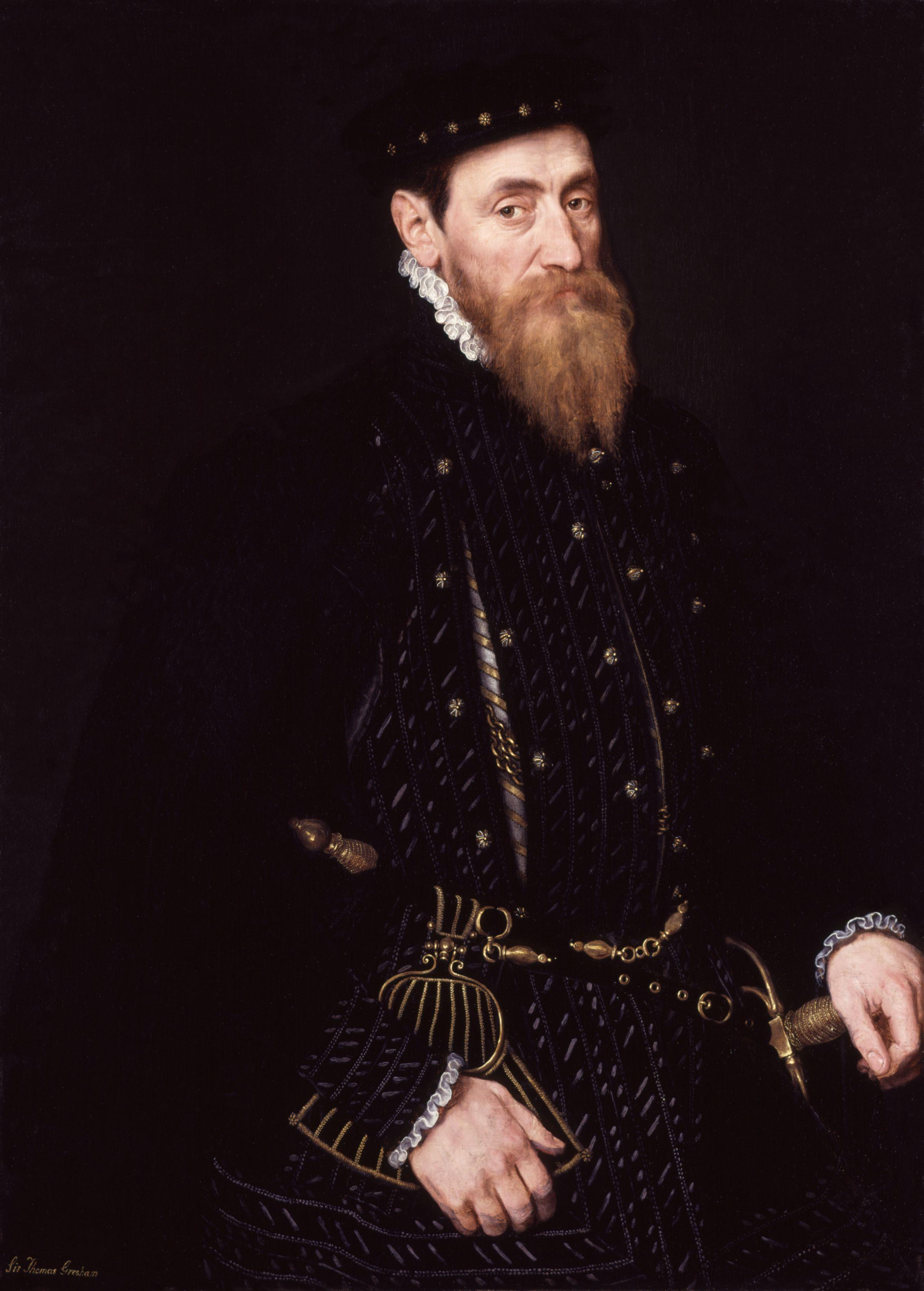 Sir Thomas Gresham, by unknown artist. All images in this batch have an unknown author, but there is strong evidence it was first published before 1923 (based mainly on the NPG's estimated date of the work).